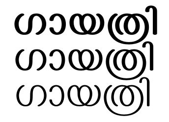 Gayathri Font - Normal, Bold and Narrow